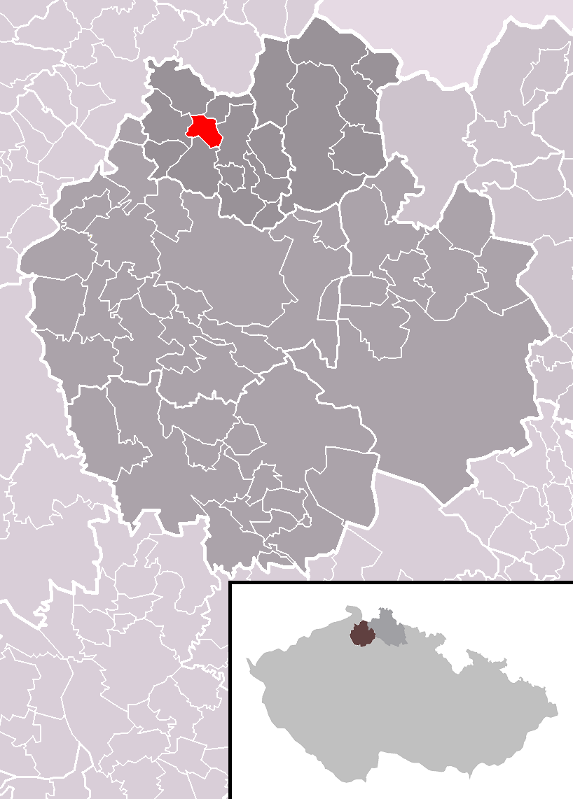 Location of Okrouhlá municipality within Česká Lípa District and administrative area of Nový Bor as a Municipality with Extended Competence.